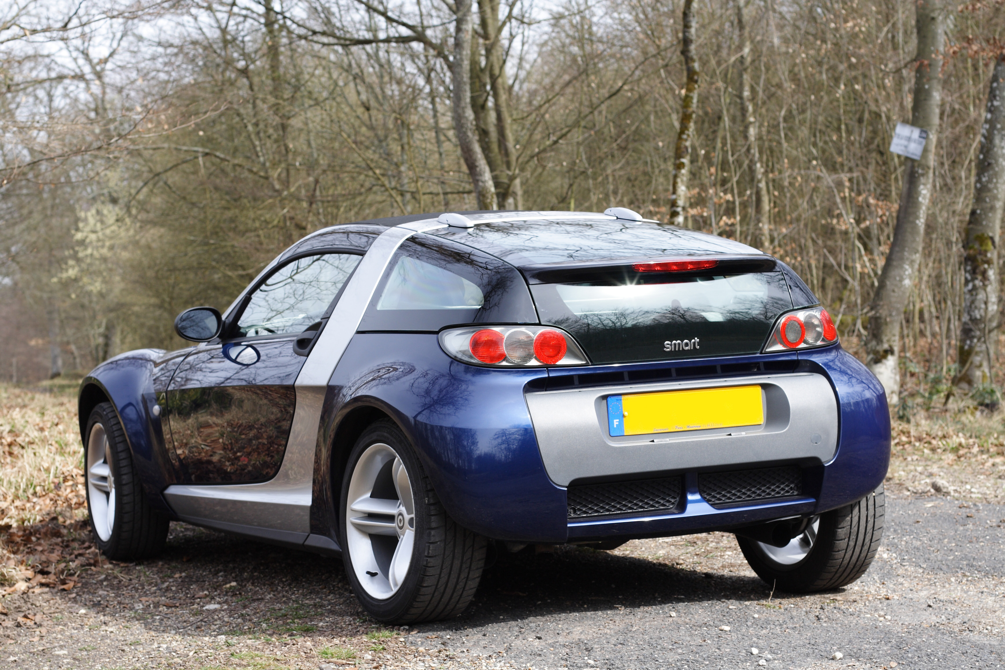 Smart Roadster Coupé. This is a 2004 model, serial number 37040 out of 43091, with a Star Blue (C85L/EAF) paint and grey Tridion (C02L/EB2). It is equipped with sport pack and comfort pack. Picture taken with a Canon EOS 350D and Canon 50mm F1.4 @ F2.8.